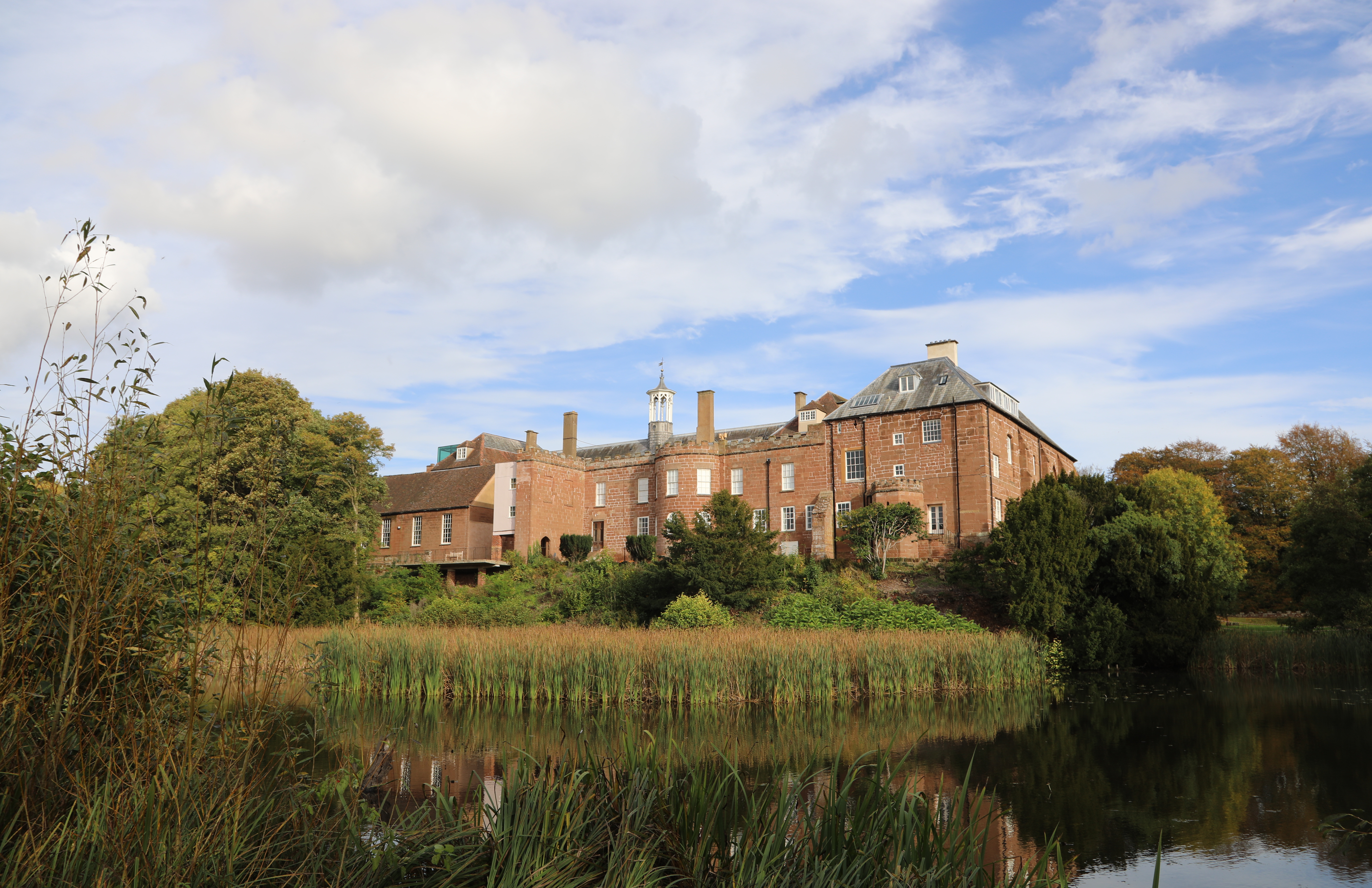 Photo of the rear of Hartlebury Castle with the moat in the foreground.